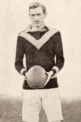 Photograph of Athol Tymms from the 1910 Weekly Times Victorian Footballer Postcard Series